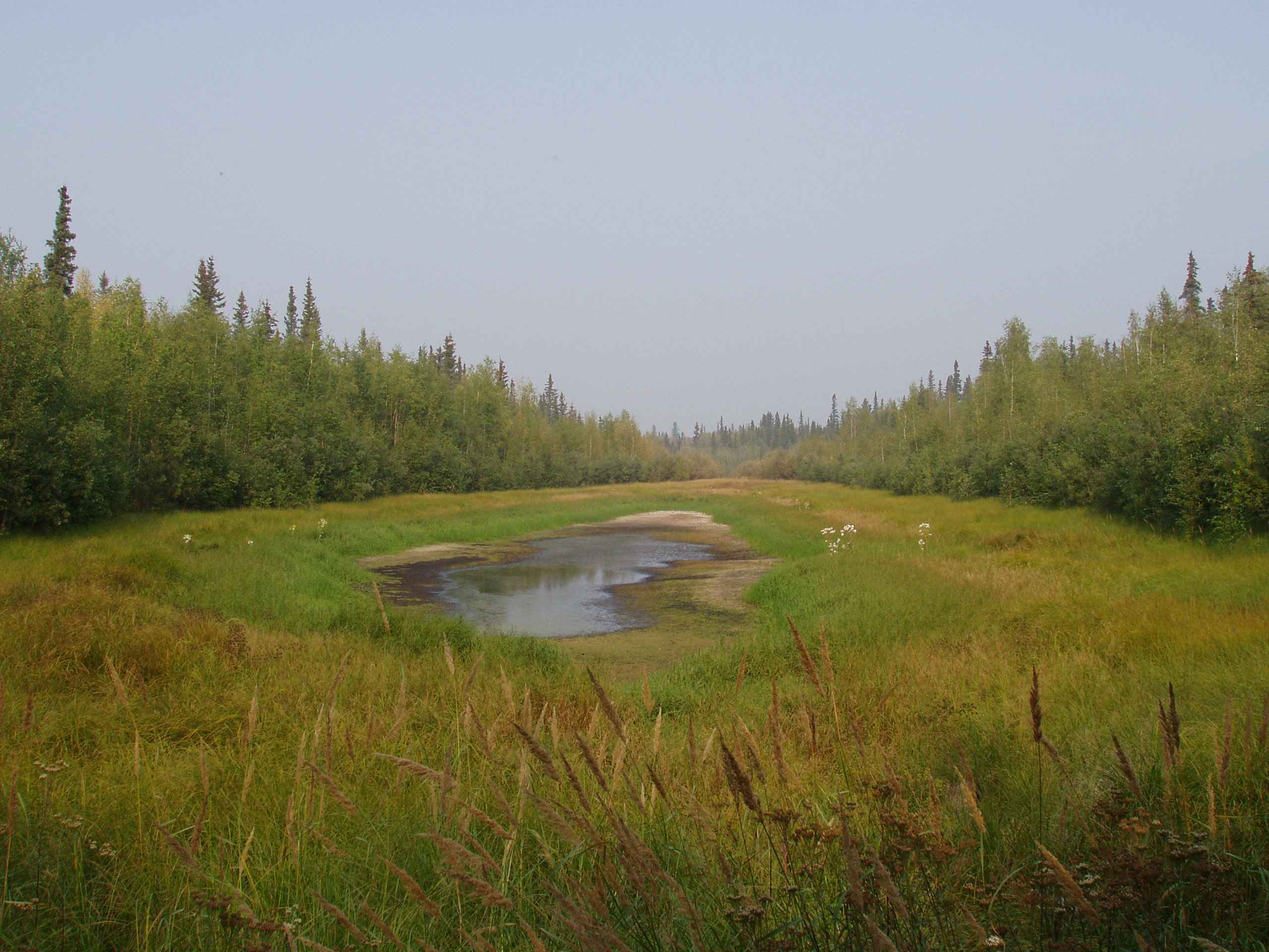 Image title: A typical small lake succumbs to a meadow. Image from Public domain images website